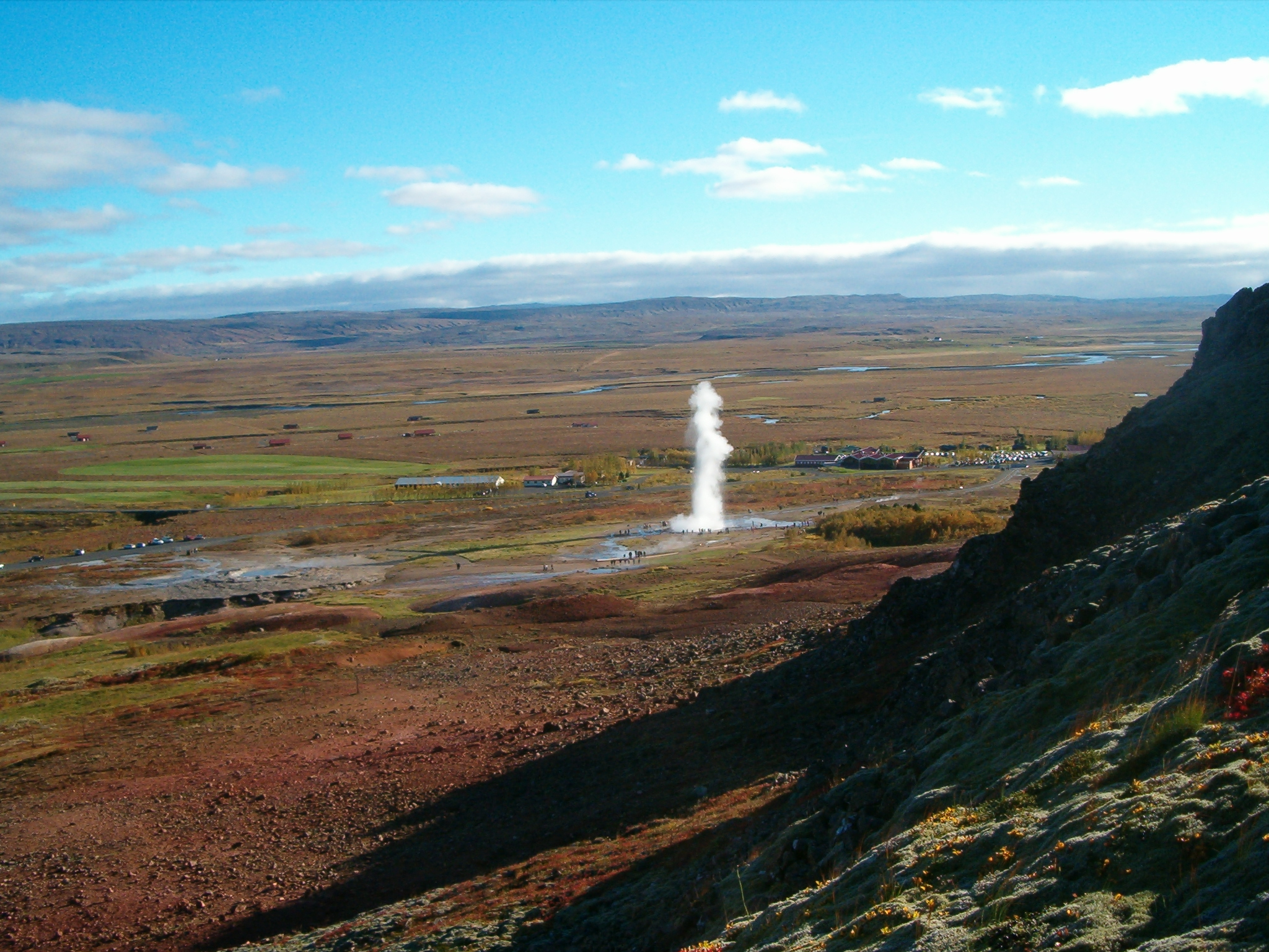 Overview of the area with Strokkur geyser active.